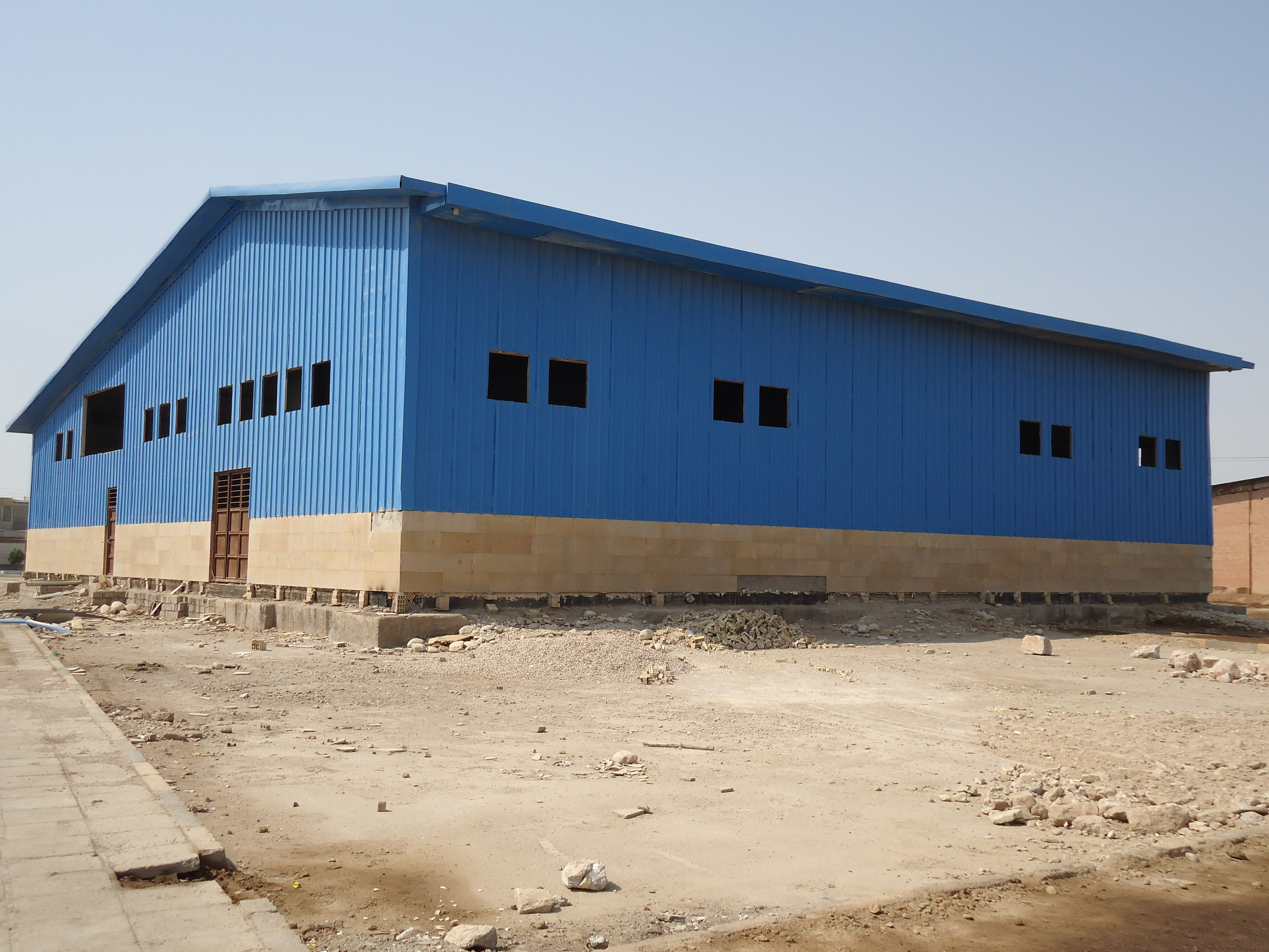 uncompleted Salon in Ahwaz, Iran.